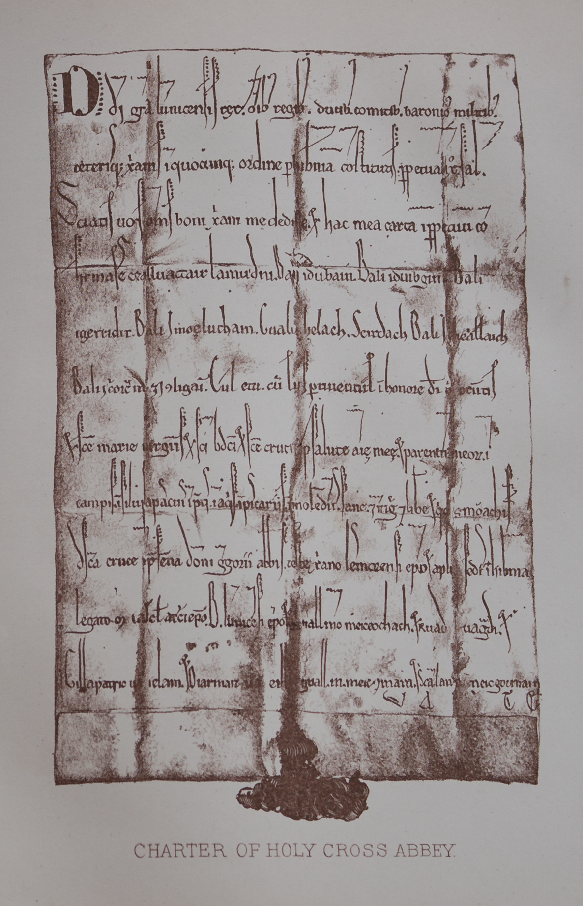 Charter of Domnall Ua Briain to Holy Cross Abbey, issued during his reign, i.e. at some time between 1168 and 1185. The image notes refer to the lands donated to the abbey. The transcriptions and the associated notes have been taken from following two works: Geraldine Carville: The Heritage of Holy Cross, Blackstaff Press, Belfast 1973, p. 27–28, and Marie Therese Flanagan: Irish Royal Charters Texts and Contexts, Oxford University Press, ISBN 0-19-926707-3, p. 307–314.